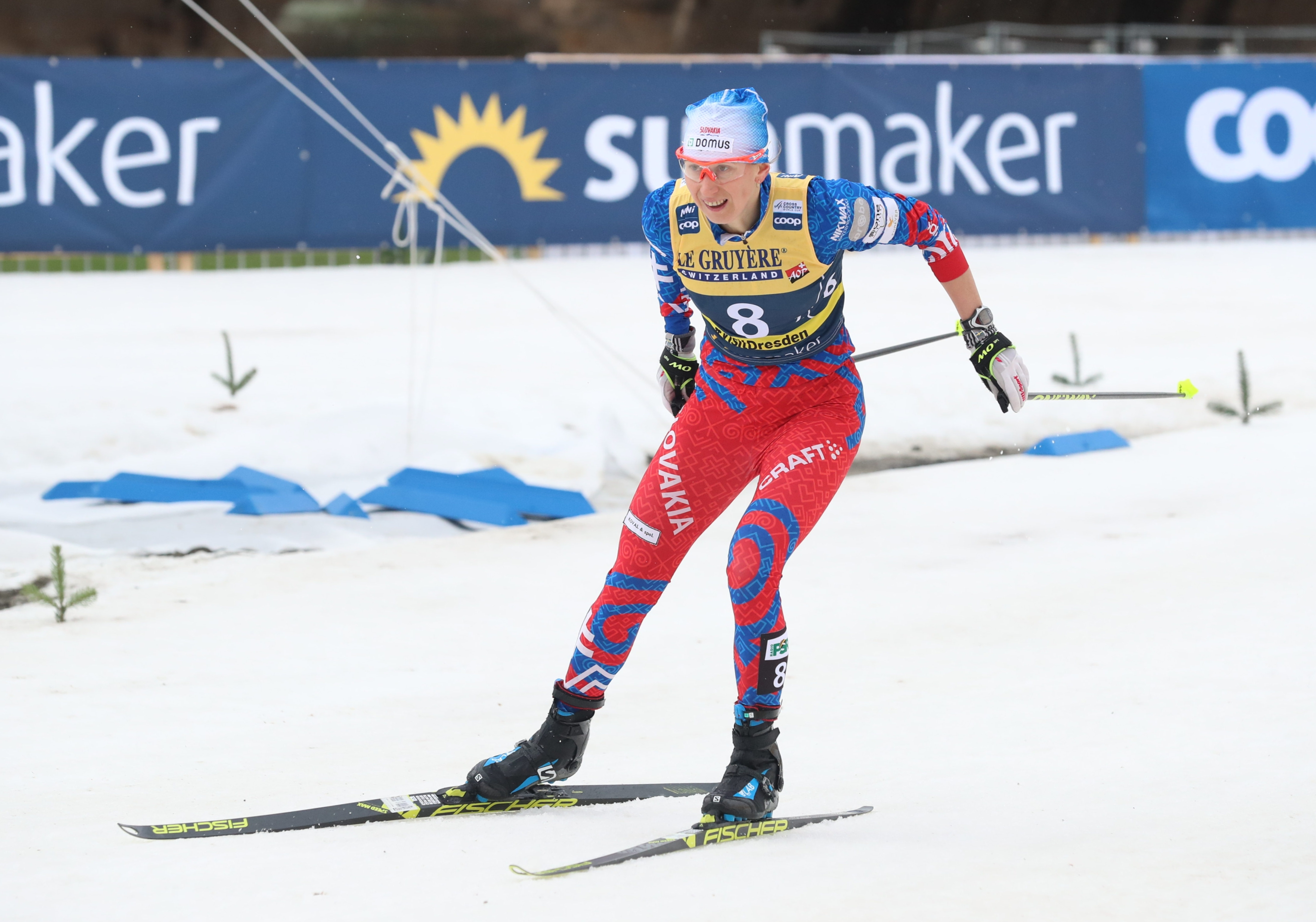 Women's Teamsprint Semifinal, Heat 2, at the FIS Cross-Country World Cup Dresden 2019 (6 x 1.6 km Team Sprint Free)